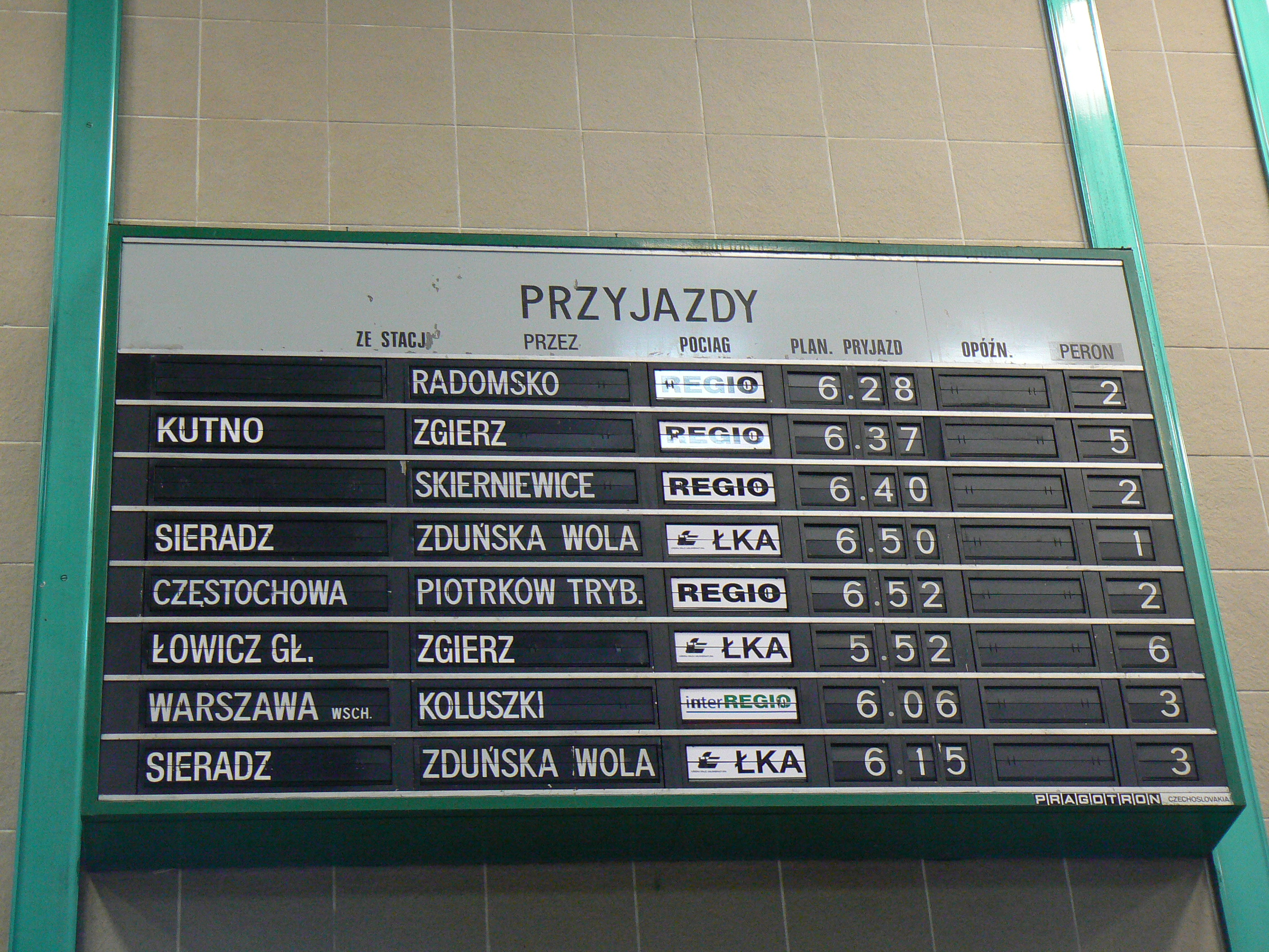 Arrivals (Split-flap display) made by Pragotron company at Łódź Kaliska railway station. Łódź, Poland.